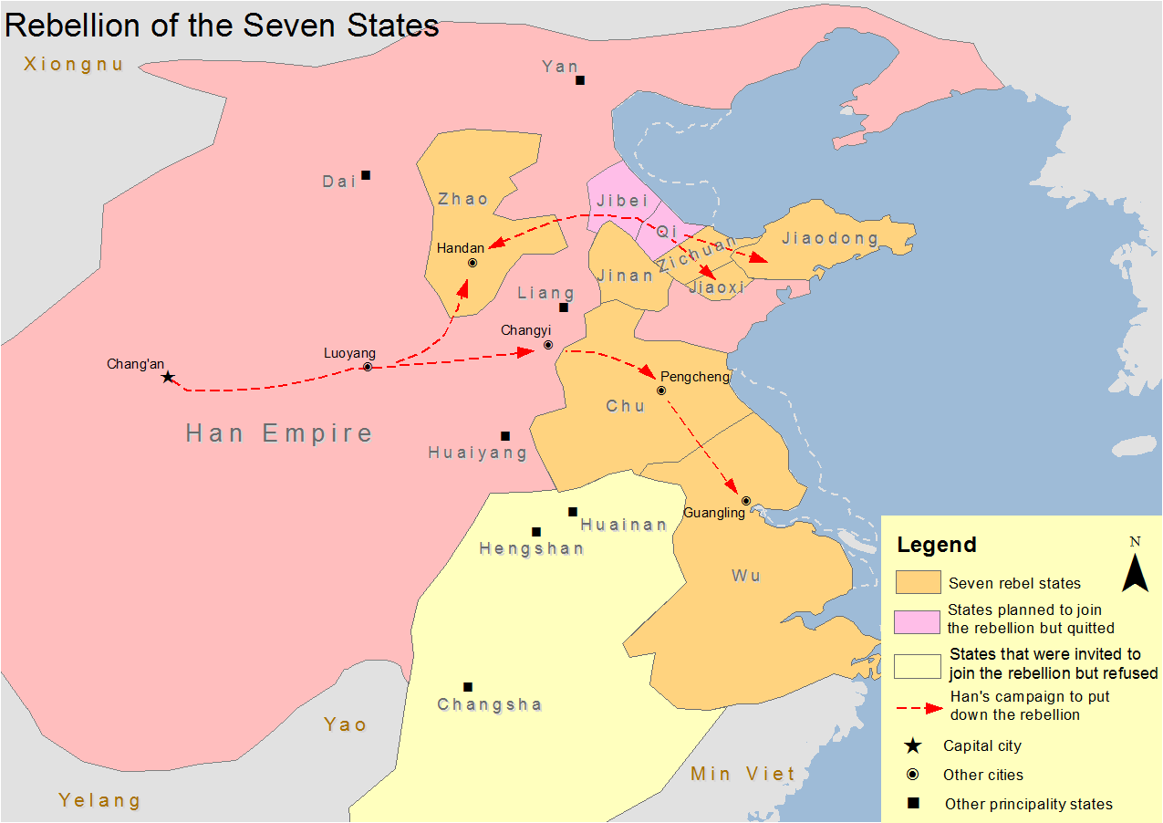 Map showing the Rebellion of Seven States during the Han dynasty 中文（中国大陆）: 西汉朝七国之乱